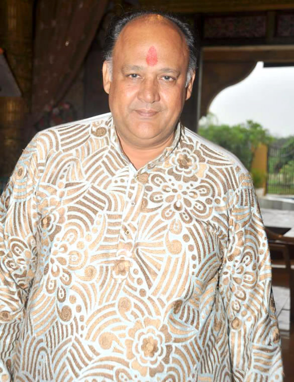 Alok Nath at TV serial 'Yahan Main Ghar Ghar Kheli' celebrates successful 700th episodes